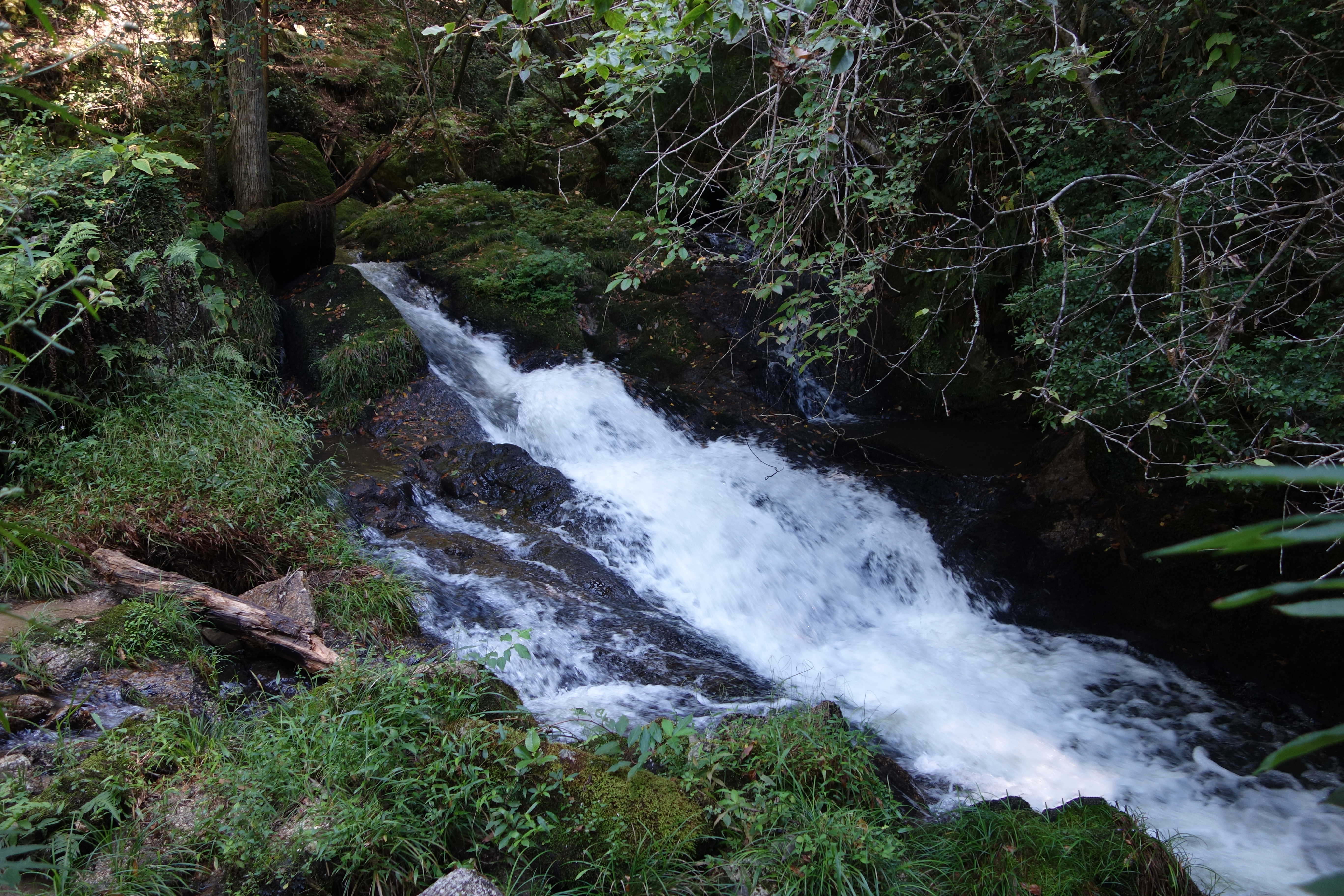 2.Shidario no taki(waterfall) in Kōyama, Shigaraki, Koka, Shiga, Japan